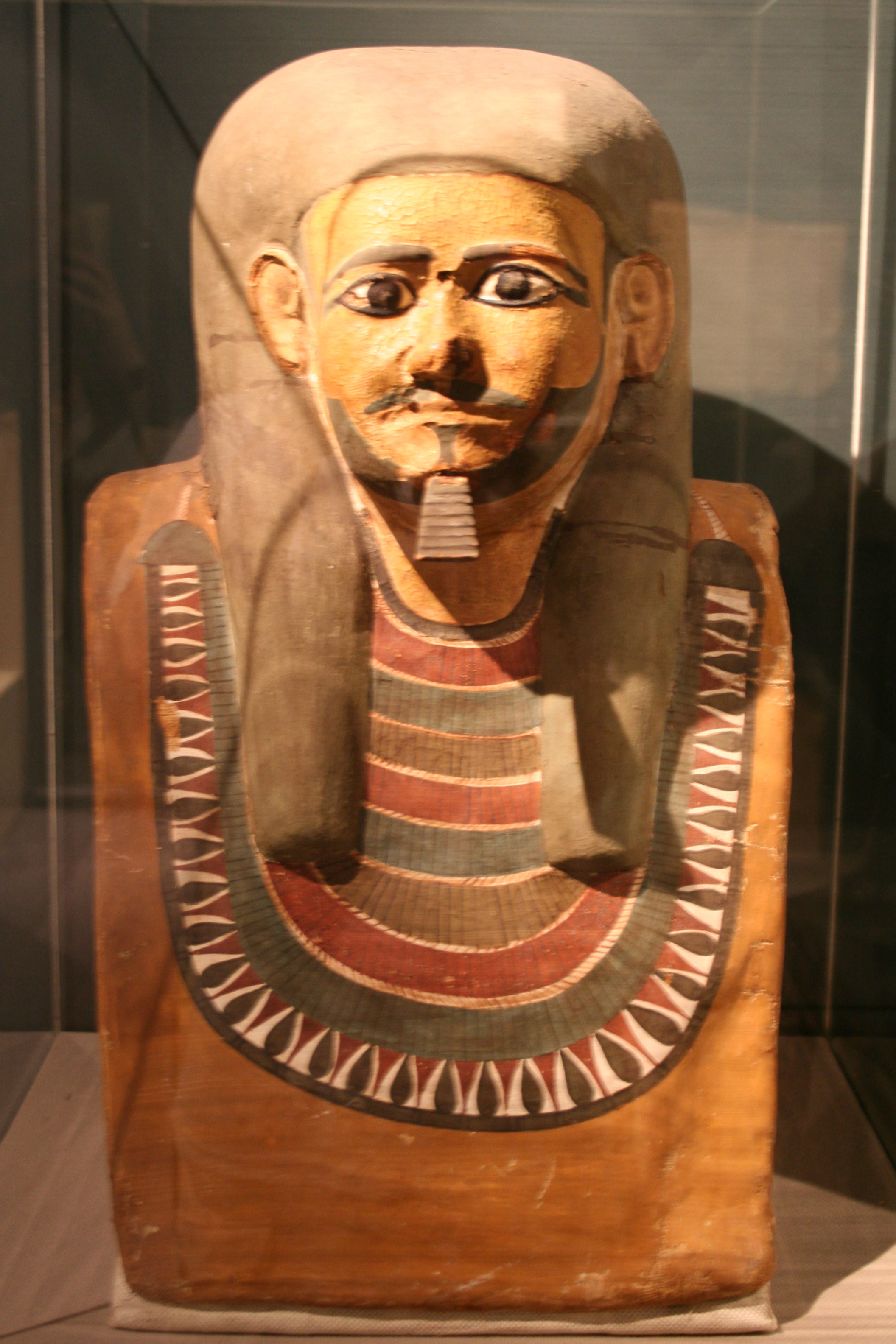 Mummy mask of Herishefhotep; Abusir, 9th/10th dynasty